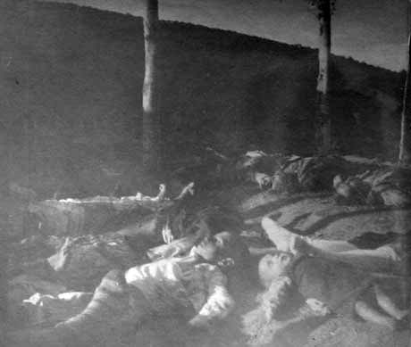 Child victims of the Armenian massacre awaiting burial in the Armenian Gregorian Cemetery, Erzurum, Turkey, 1895